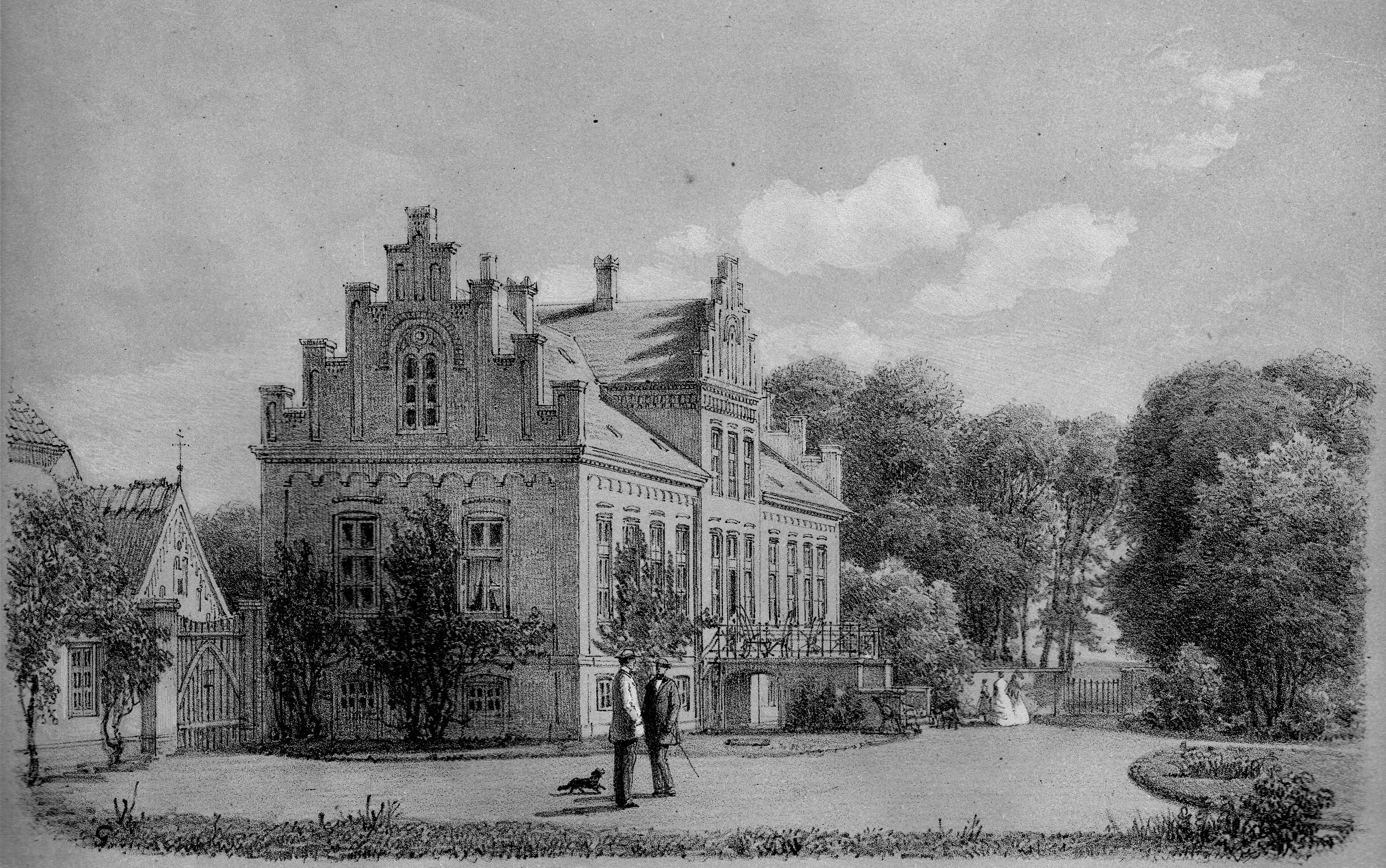 Scanned by myself from a copy of the old book in 2007. The book was graciously lent to me by Det Kongelige Garnisonsbibliotek.